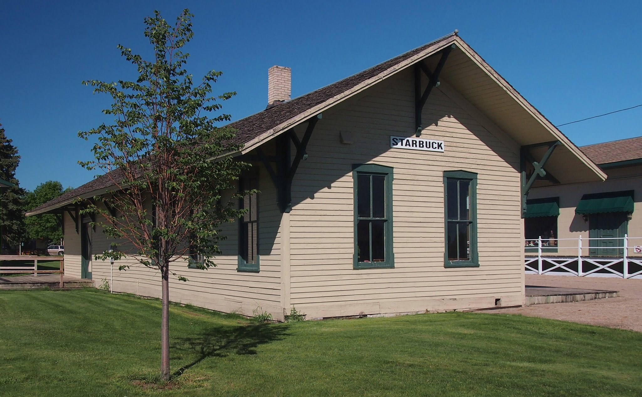 Little Falls and Dakota Depot, Starbuck, Minnesota, USA. Viewed from the east-southeast.